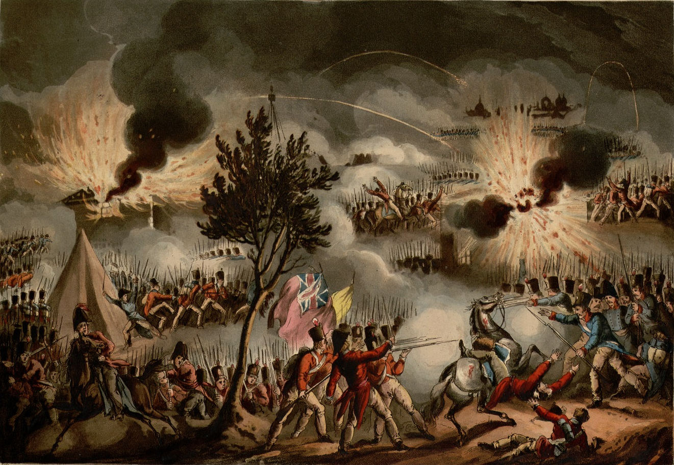 A copper engraving depicting the sortie from the besieged city of Bayonne, which occurred on the 14 April 1814, during the Peninsular War.